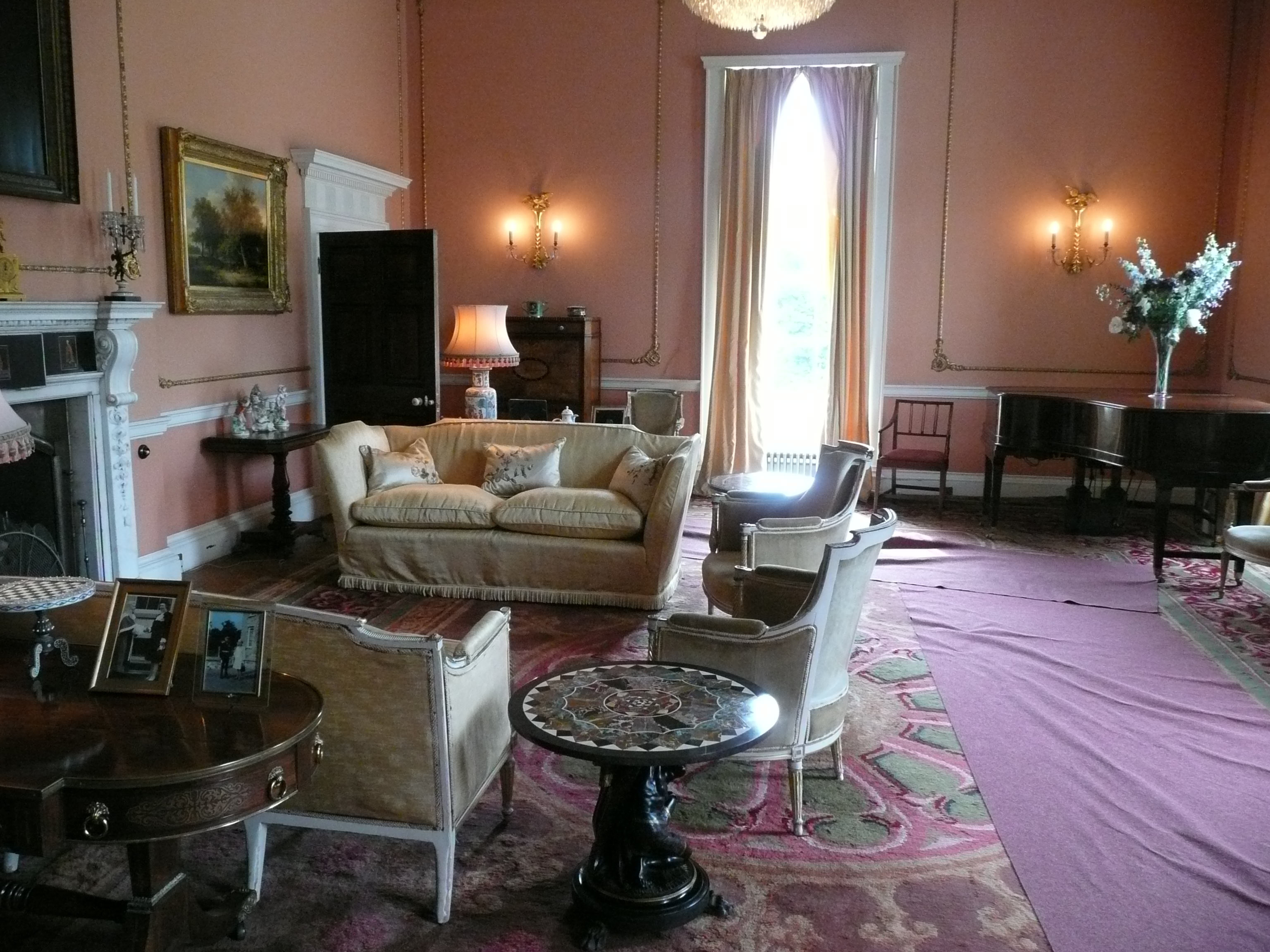 Picton castle inierior